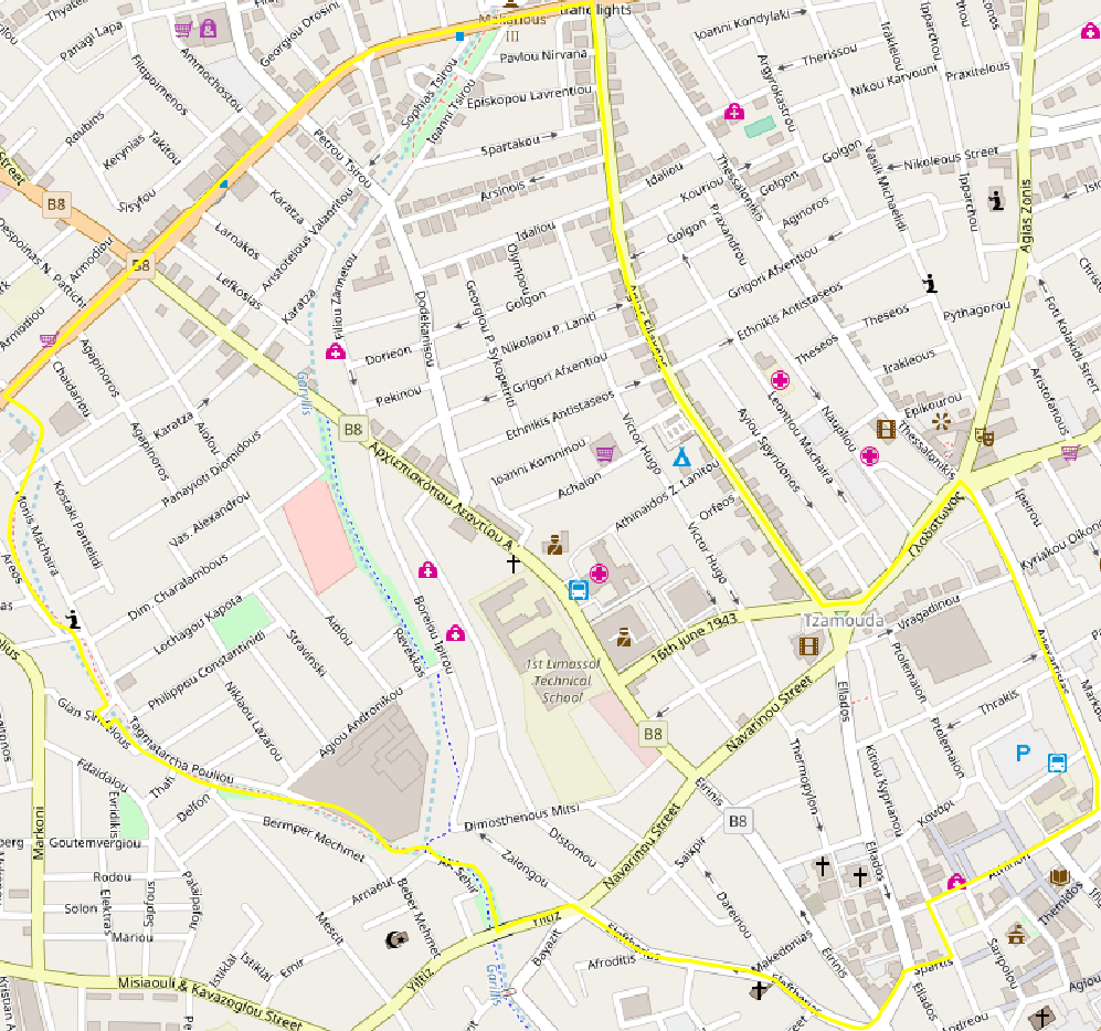 Map of Katholiki.